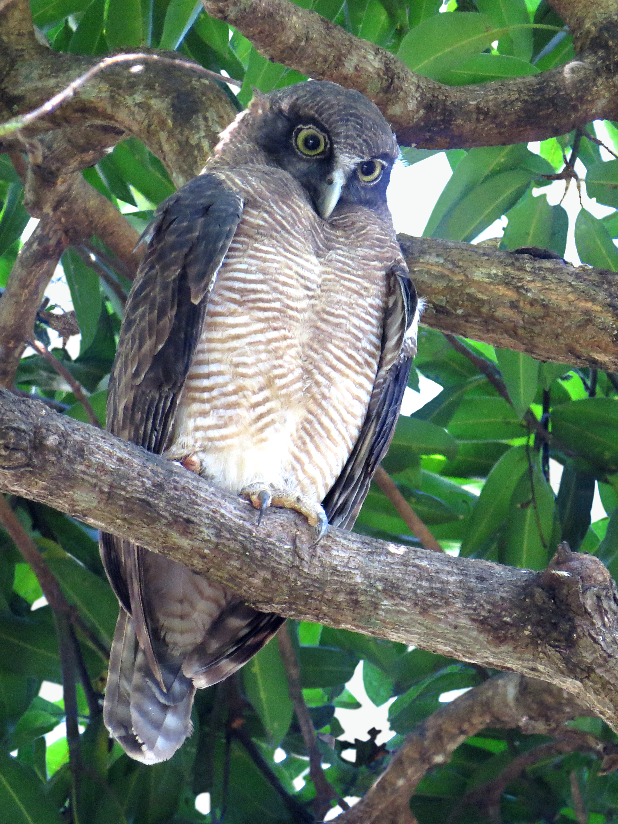 Rufous owl in a large Mango tree (Mangifera indica) on the esplanade at Cairns, north Queensland